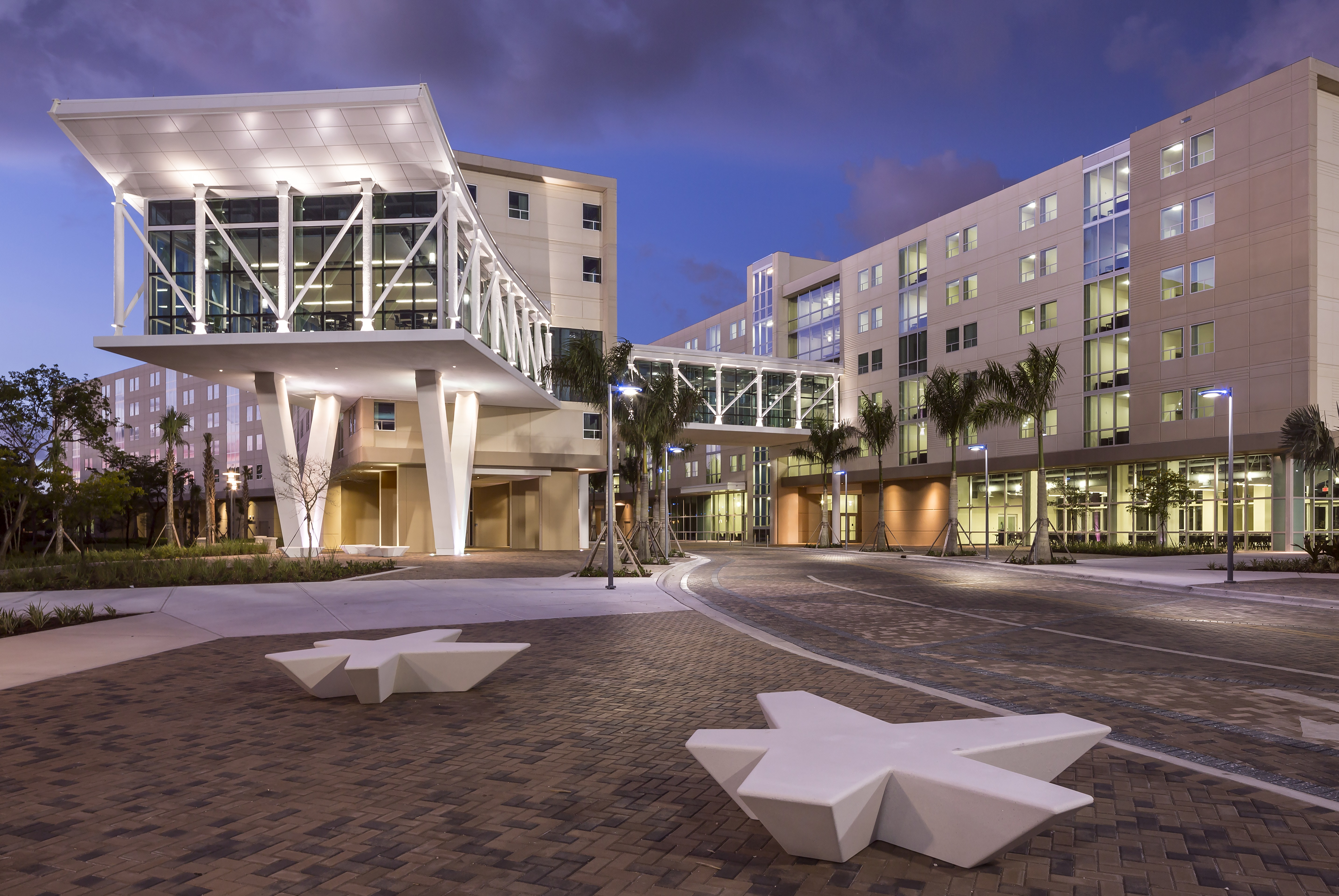 Image of FIU Housing Building in Miami